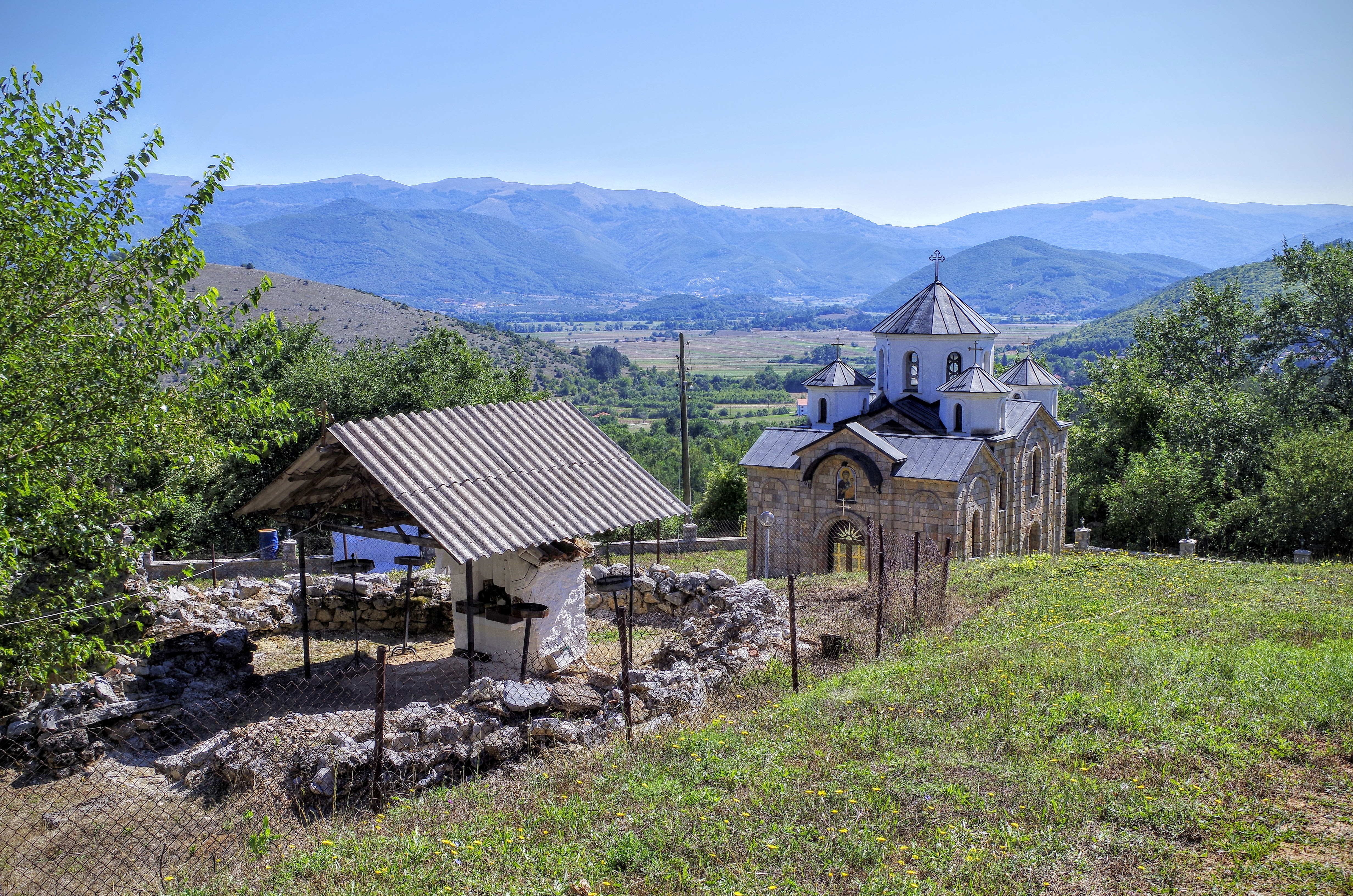 View of old and new St. Mary Church in the village Zlesti, Macedonia